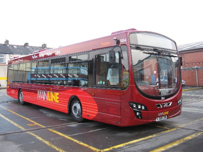 Transdev Burnley & Pendle 1854 (FJ58 LSN), a Volvo B7RLE/Wright Eclipse II, seen when new on the Mainline route.